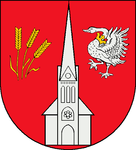 Coat of arms of the municipality Siek in Schleswig-Holstein, Germany.